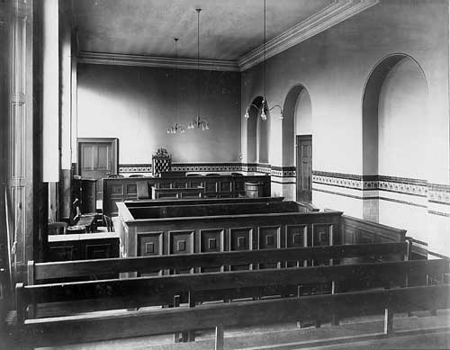 1906 photo of West Riding Court